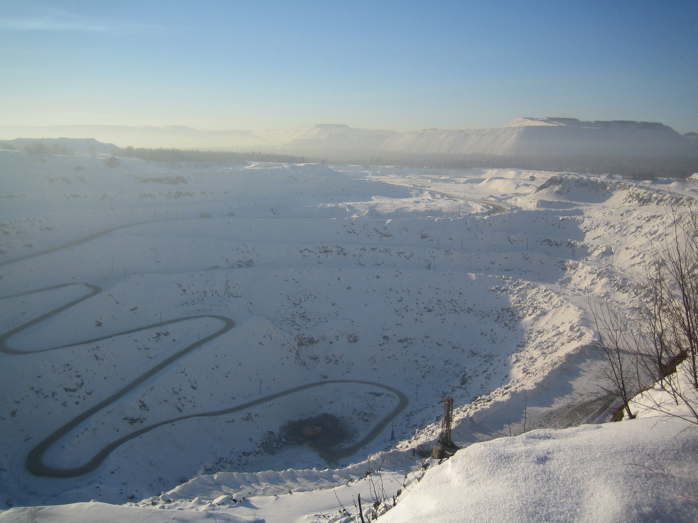 Open pit mine at Kovdor.